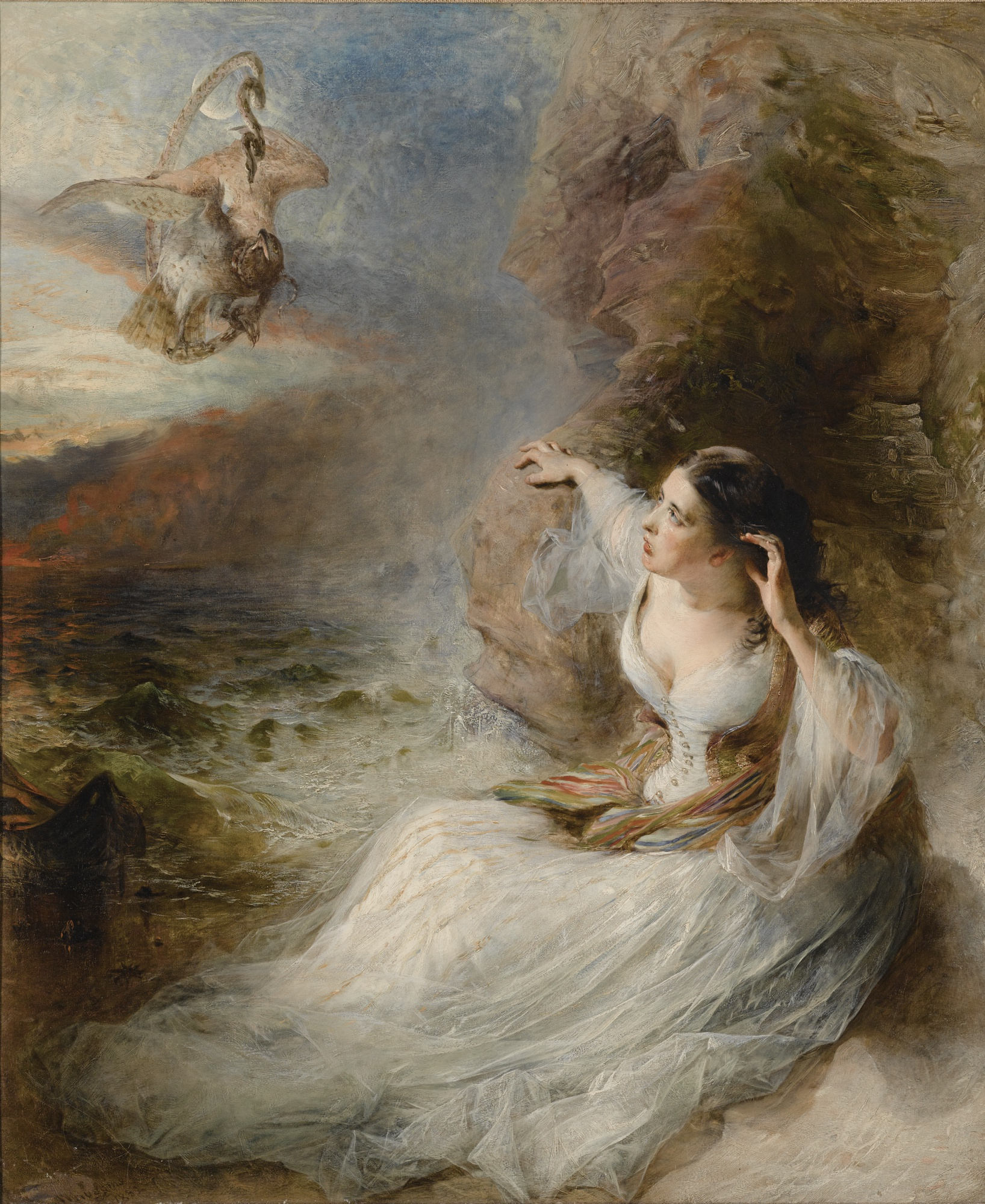 For in the air do I behold indeed An eagle and a serpent wreathed in flight... There was a woman, beautiful as morning, Sitting beneath the rocks, upon the sand Of the waste sea-fair as one flower adorning An icy wilderness... Upon the sea-mark a small boat did wait, Fair as herself, like Love by Hope left desolate.' Percy Bysse Shelley, 'The Poet's Vision' from Laon and Cythna